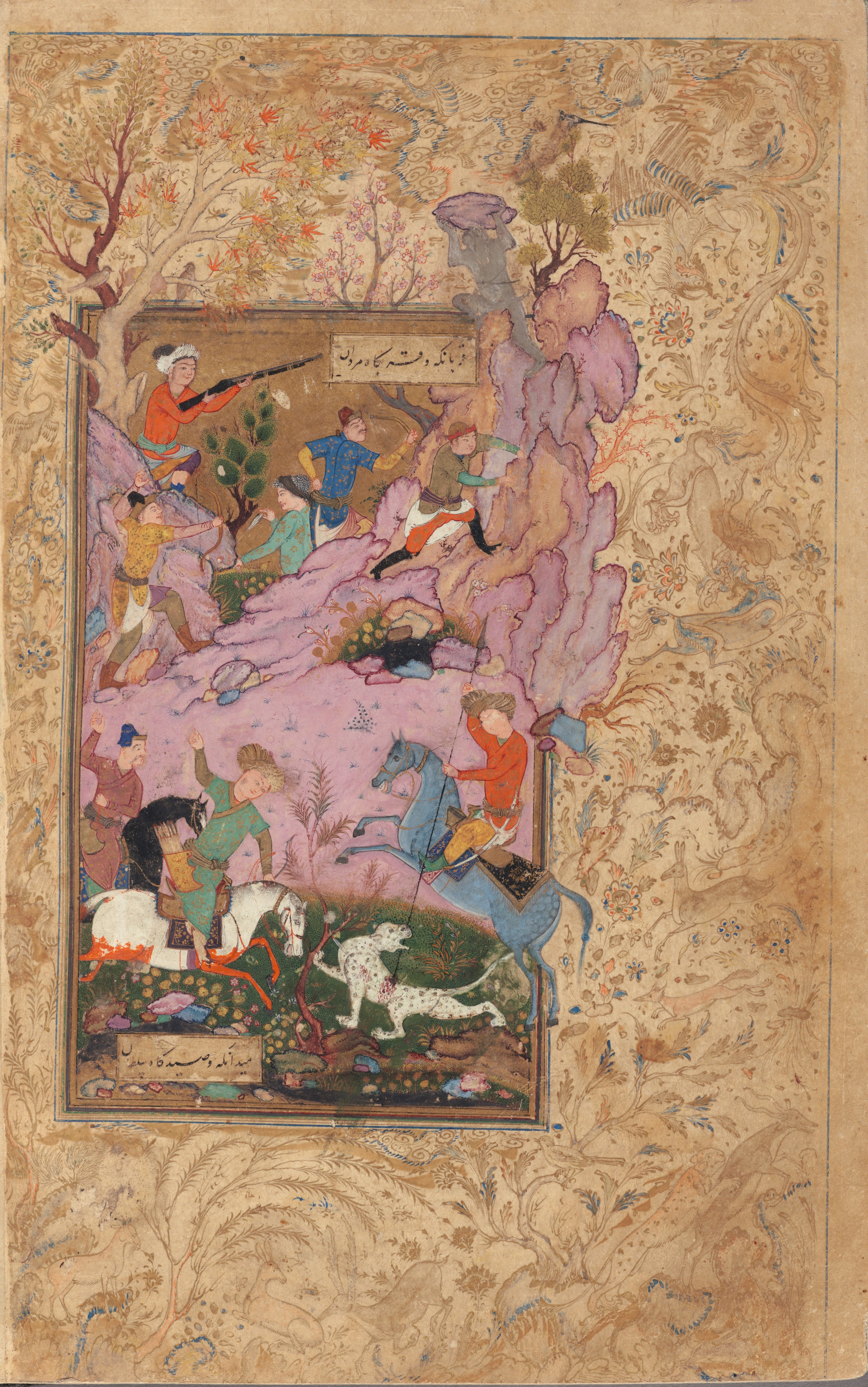 Written in a small professional nastaliq script in black ink in two columns, on both sides of slips 8 x 15 cm. laid into the pages. Text framed within multiple colored lines (red, green, gold, black and blue). Page-borders are patterns of birds and animals in colors (pink, orange, blue, etc...) outlined in gold. First leave (f. 1v) illuminated. There are numerous aniconic headpieces in colors and gold, and 3 miniatures, of the Isfahan school, on ff. 14v, 47r, 95v. According to the ornamental colophon (f. 128r), copy completed on 10 Dhū al-Qaʻdah 1012 AH [April 9, 1604 AD] in the hand of Shāh Qāsim.